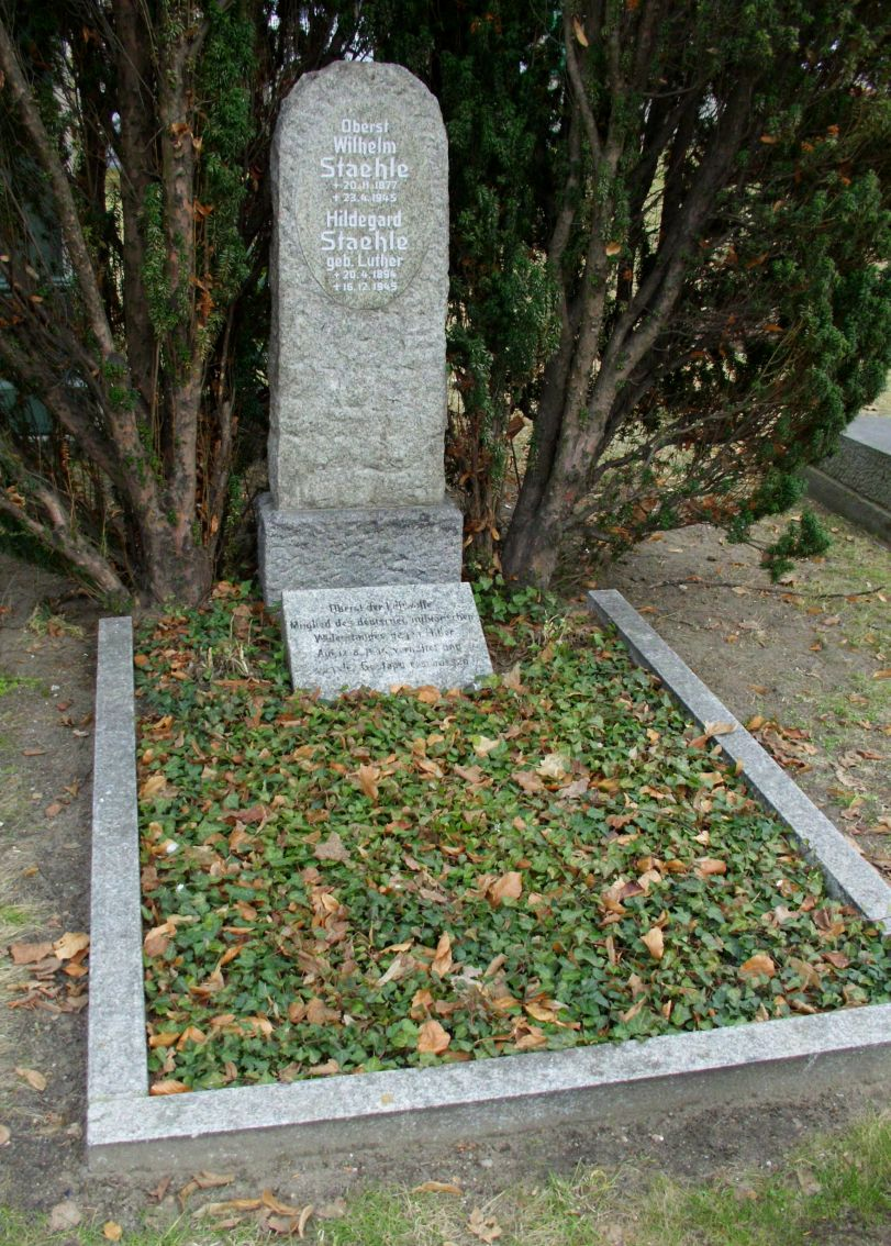 Grave of Wilhelm Staehle (Situation 2013)